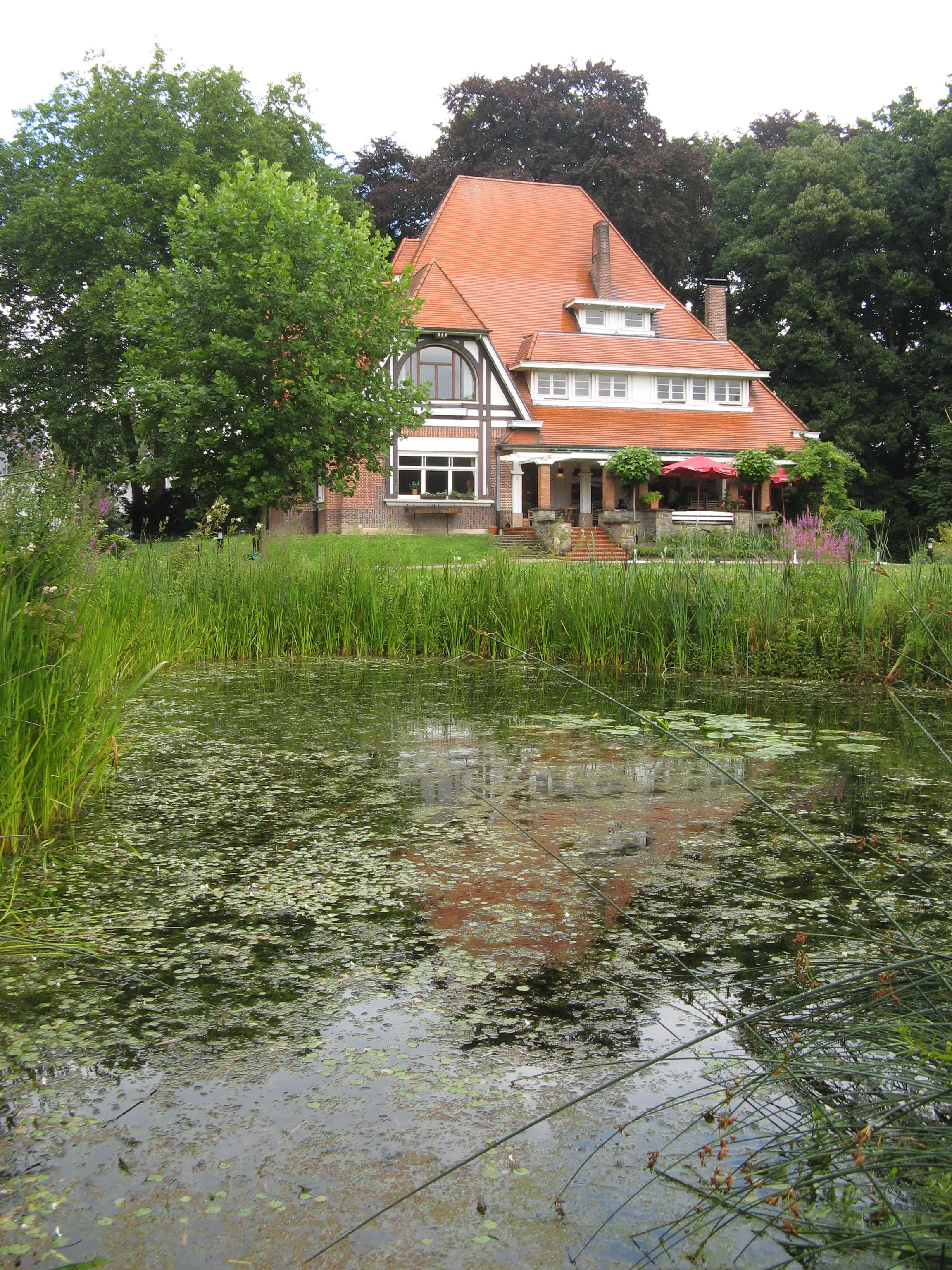 Den Blakken, Wetteren, Belgium